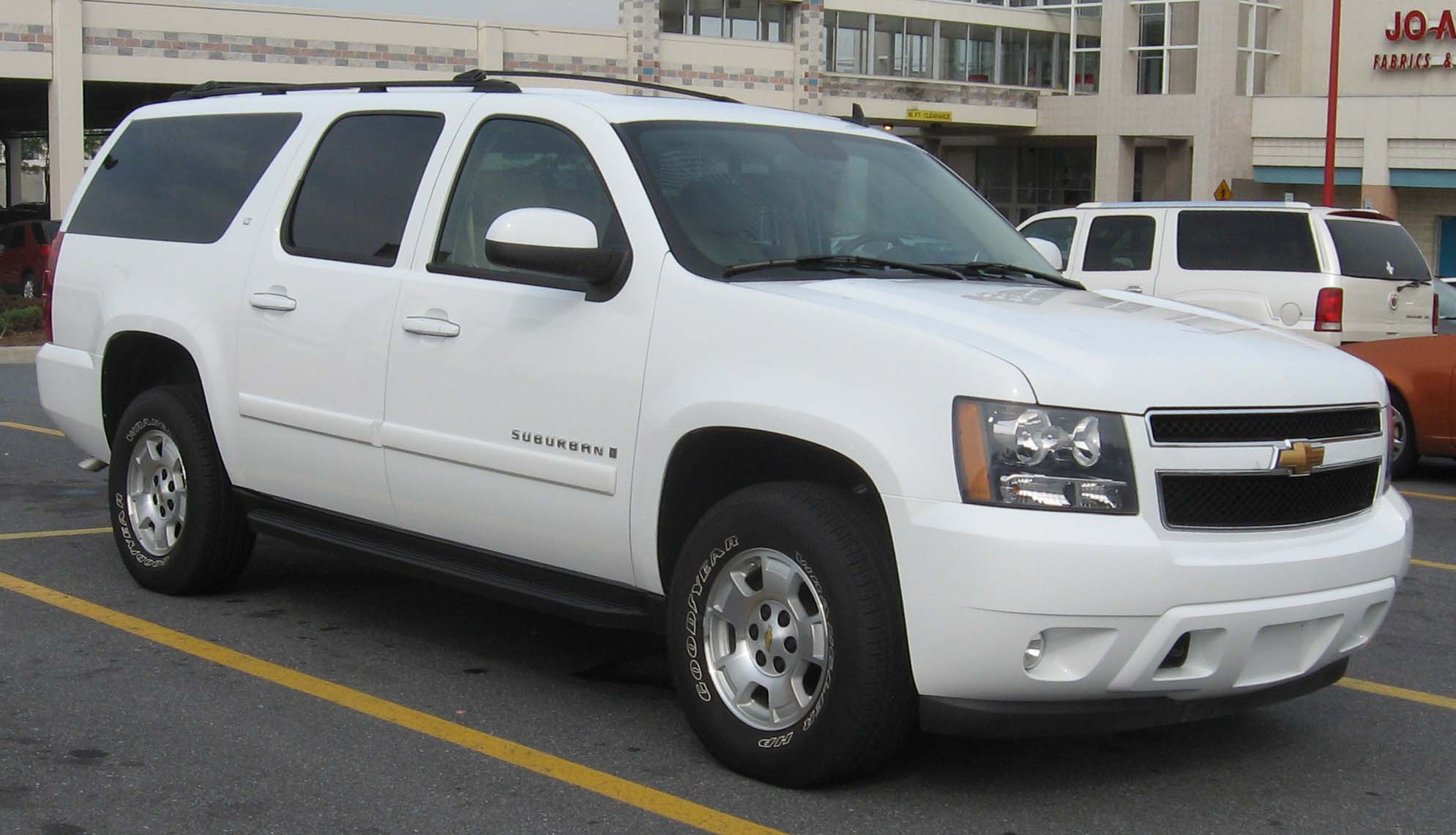 2007-2008 Chevrolet Suburban photographed in Greenbelt, Maryland, USA.